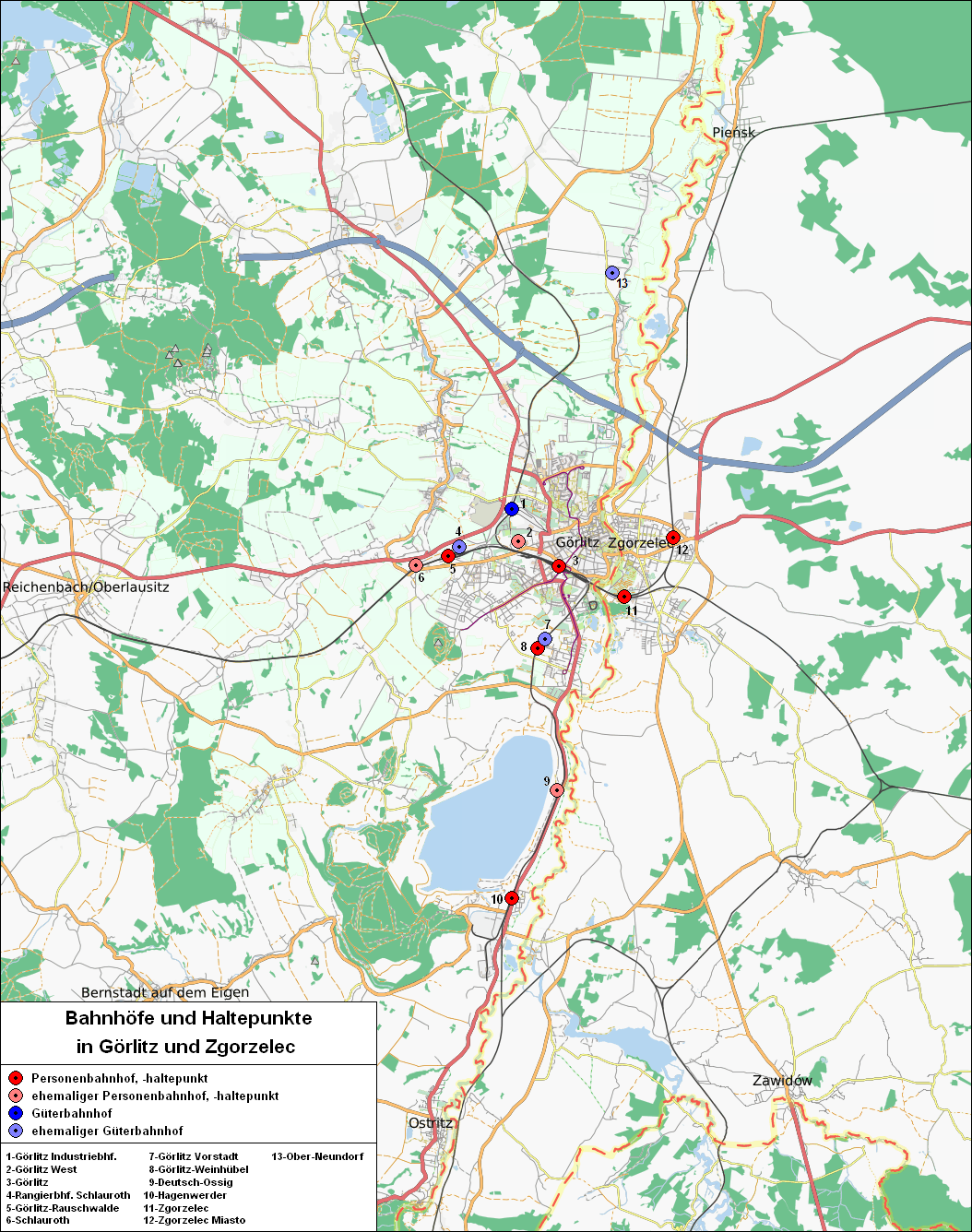 This map may be incomplete, and may contain errors. Don't rely solely on it for navigation.